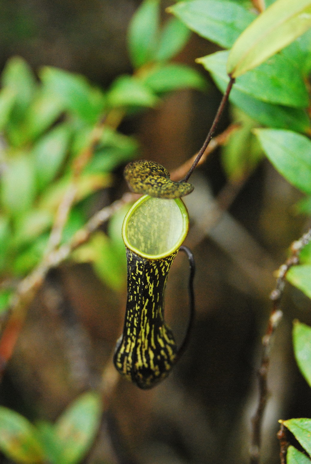 Nepenthes mikei, North Sumatra